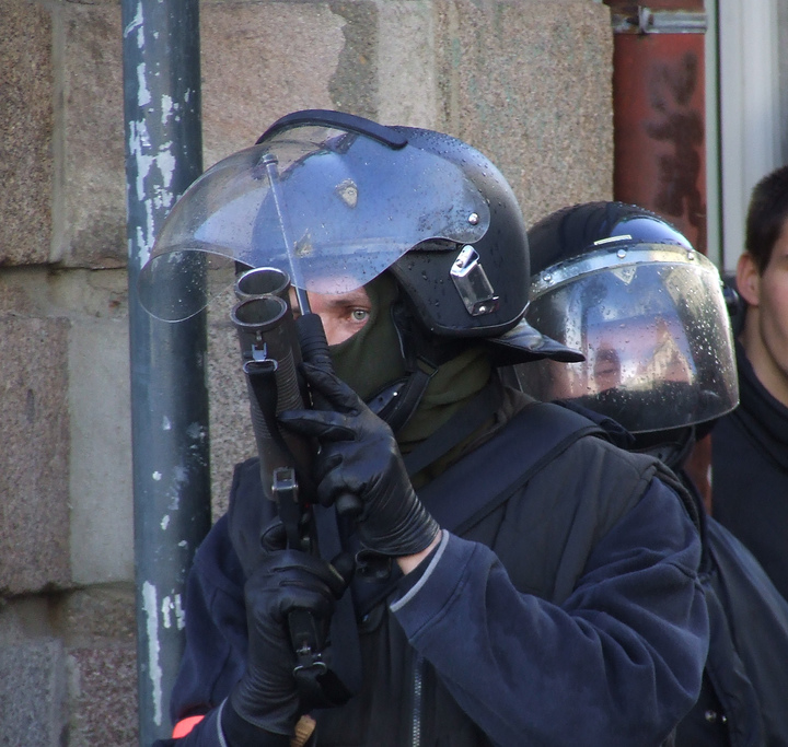 French policeman firing a flash-ball